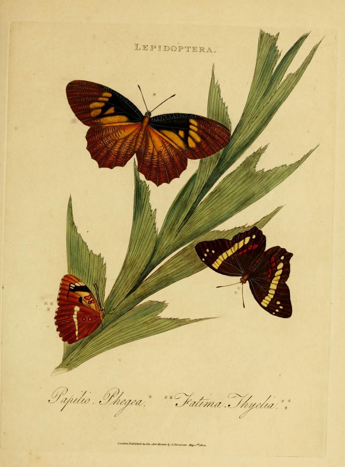 Edward Donovan An Epitome of the Natural History of the insects of India [1800] Papilio phegea synonym for Elymniopsis phegea Fabricius, 1793 Papilio fatima synonym for Anartia fatima Fabricius, 1793 Papilio thyelia Fabricius, 1793 synonym for Symphaedra nais Forster, 1771 and (valid) Euthalia nais(Forster, 1771)